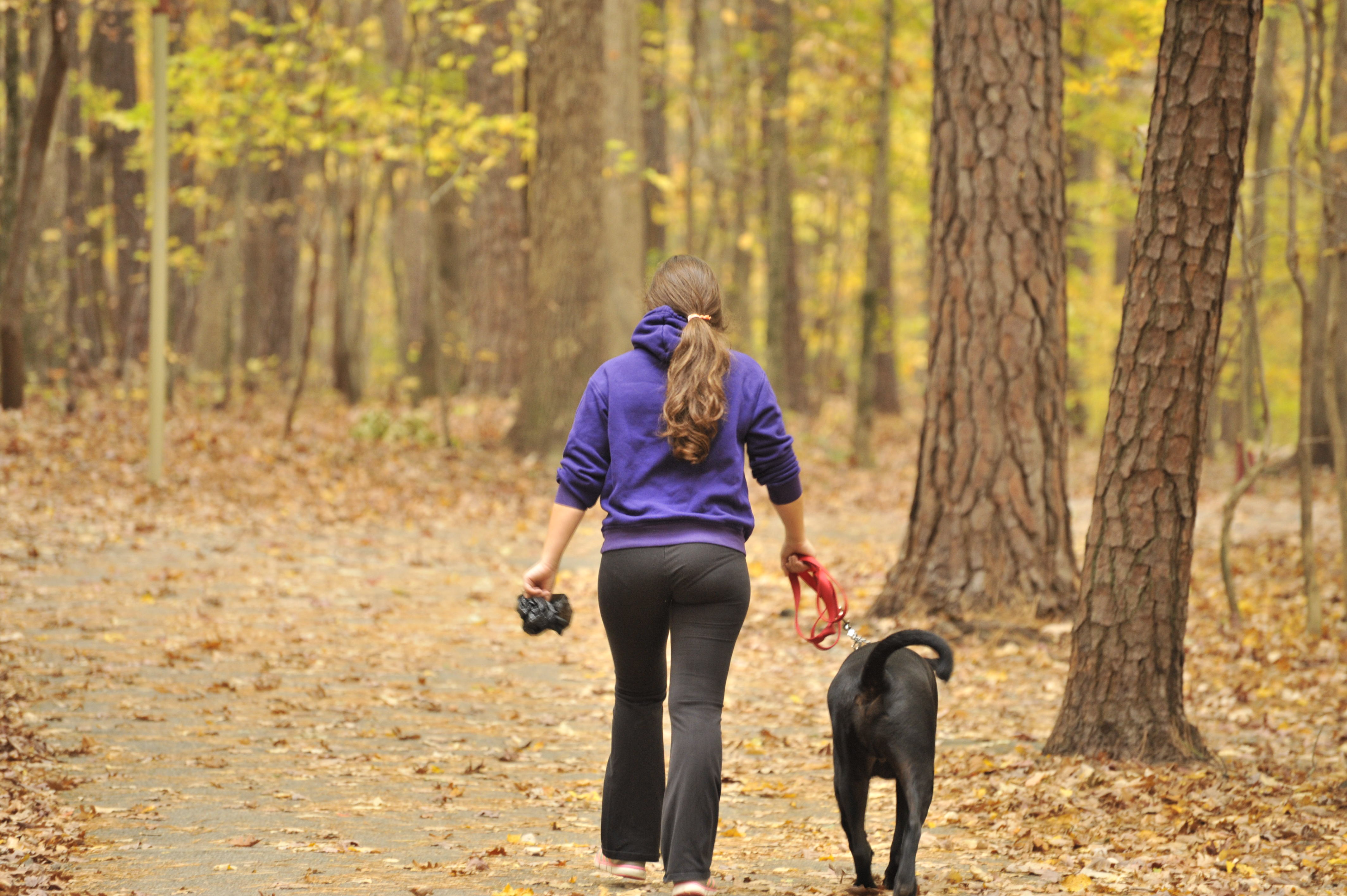 A young woman walks her dog at Lake Johnson in the Fall.